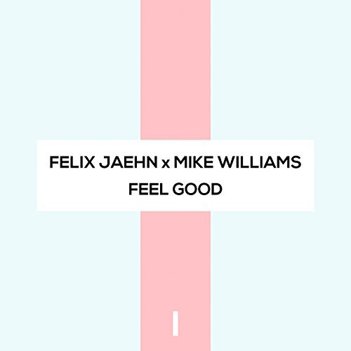 „Feel Good“ Single-Cover by Felix Jaehn x Mike Williams.